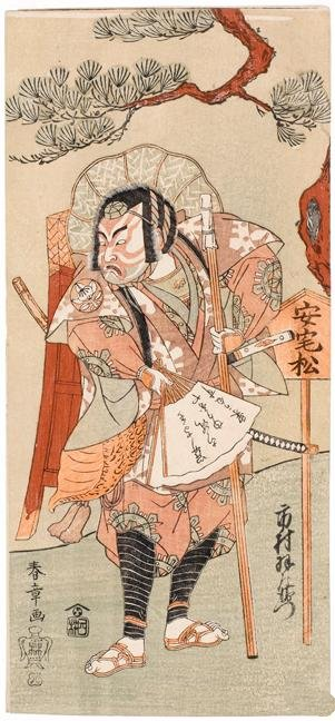 Katsukawa Shunsho (1726-1792) Ichimura Uzaemon IX as Soshobo disguised as Benkei Japan, Edo period, 1769 Color woodblock print Gift of James A. Michener, 1971 (16009) Wikipedia Loves Art at the Honolulu Academy of Arts This photo of item # 16009 at the Honolulu Academy of Arts was contributed under the team name "Team_Yatta" as part of the Wikipedia Loves Art project in February 2009. Honolulu Academy of Arts The original photograph on Flickr was taken by keska86—please add a comment to the original Flickr page whenever a use has been made on Wikipedia or another project. Project galleries on Flickr: this institution, this team